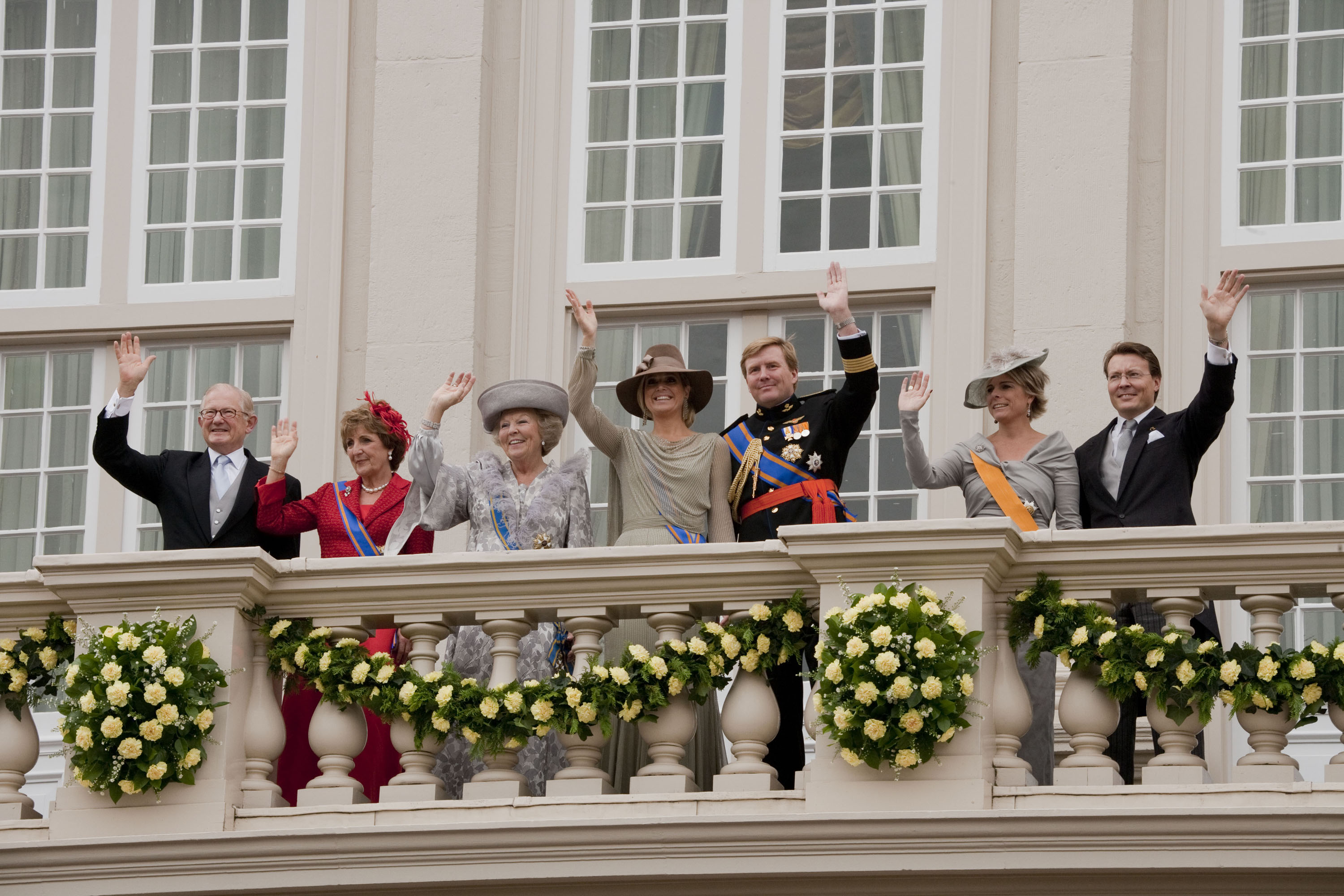 The Royal Family of the Netherlands during Prinsjesdag 2011. From left to right: Pieter van Vollenhoven, princess Margiet, Queen Beatrix, princess Maxima, prince Willem-Alexander, princess Laurentien, prince Constantijn.